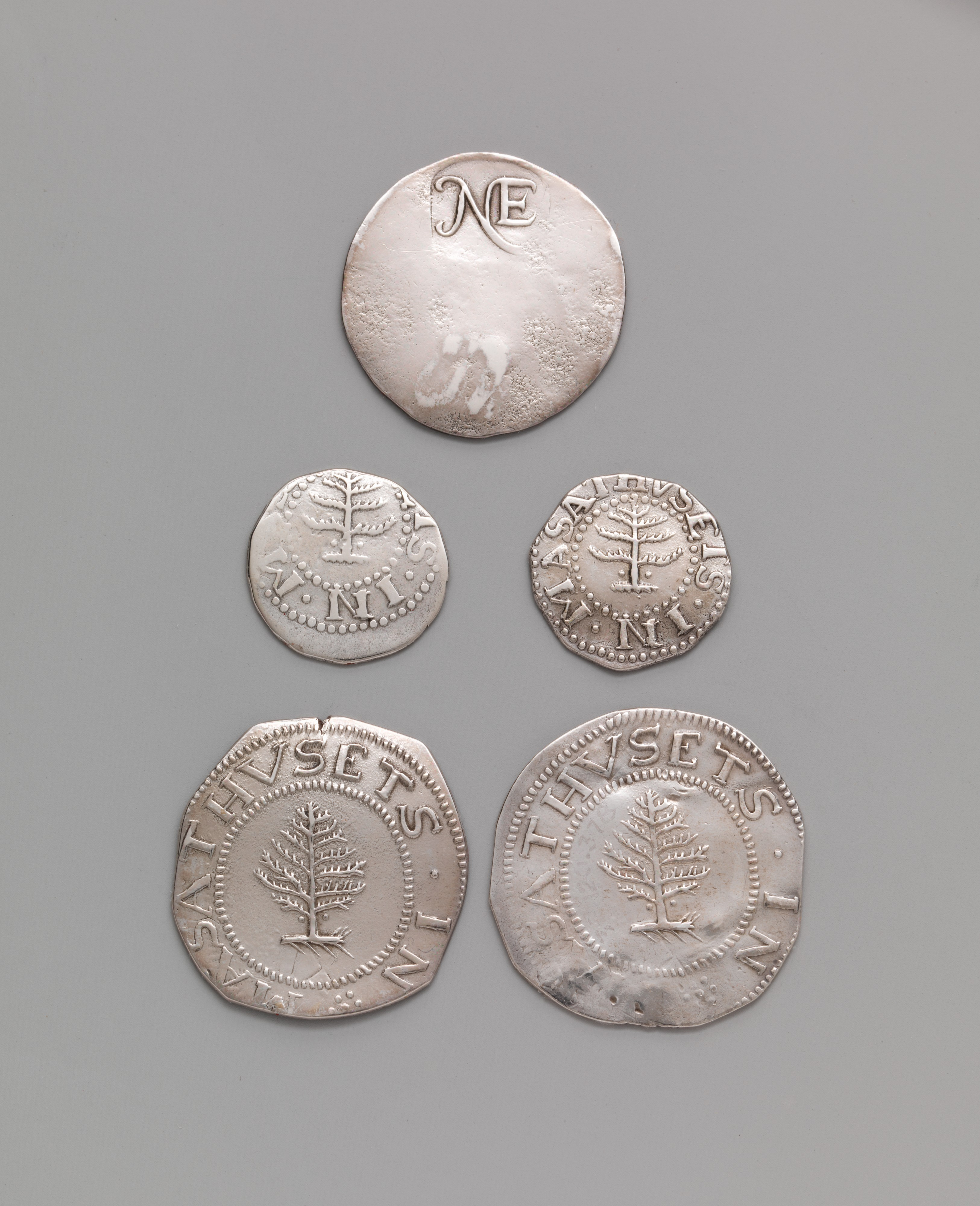 American; Coin; Silver